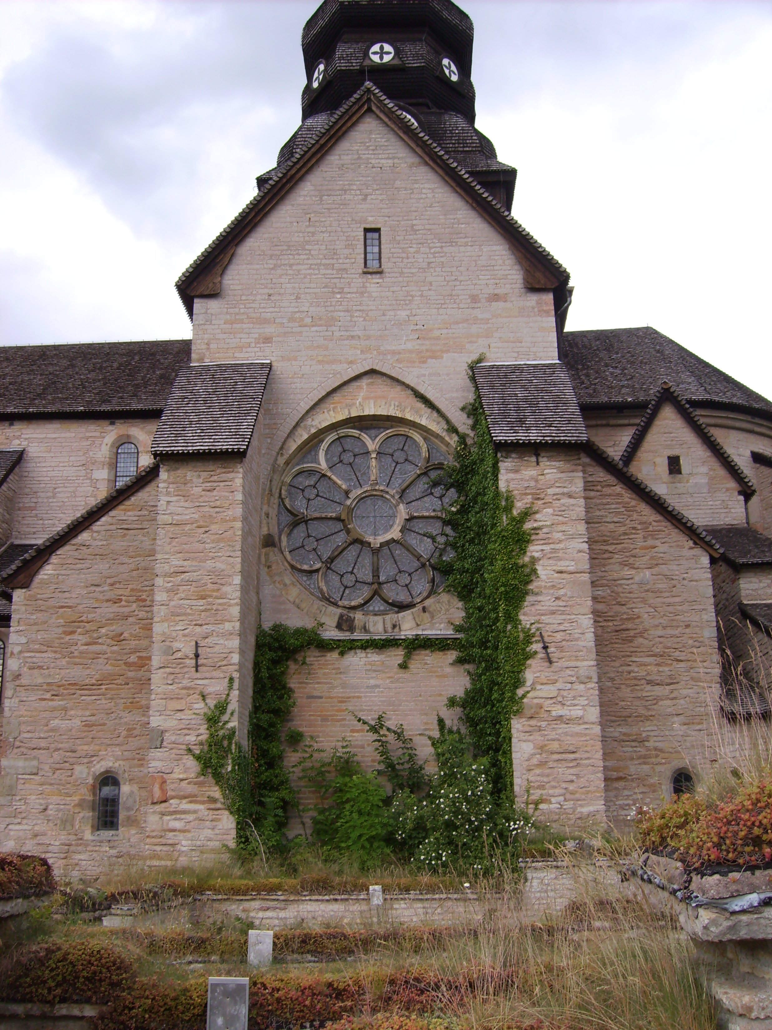 The monastic church Varnhem, convenient in the place Varnhem between the cities Skara and Skövde in the Swedish province Västergötland, is the grave church of the medieval king dynasty Eriks (Knut Eriksson and Erik Knutsson, Erik Eriksson) as well as the master father of the Bjälbo dynasty Birger Jarl and realm chancellor Magnus Gabriel de la Gardie. The monastery Varnhem was created 1150 of Cistercians as a daughter of monastery Alvastra, in the Swedish province Östergötland. The monastic church, originally in Roman style built, was heavily damaged in a fire 1234. It became in early gothic style after the model of the churches of Clairvaux (France) and Marienfeld (Germany) rebuilt. In the centre of the 17th century Swedish realm chancellor Magnus visited de la Gardie, whose county Läckö laid not far from Varnhem, the church. It recognized the value of the church as former royal grave church and let it recondition, since it should accommodate its own burial place (and those family). Between 1918 and 1923 the church was again reconditioned. At the same time the foundation walls of the monastery buildings were excavated. These excavations were taken up to the 1970 years again and are today accessible to the public. Further pieces of find can be visited in the monastery museum beside the church.